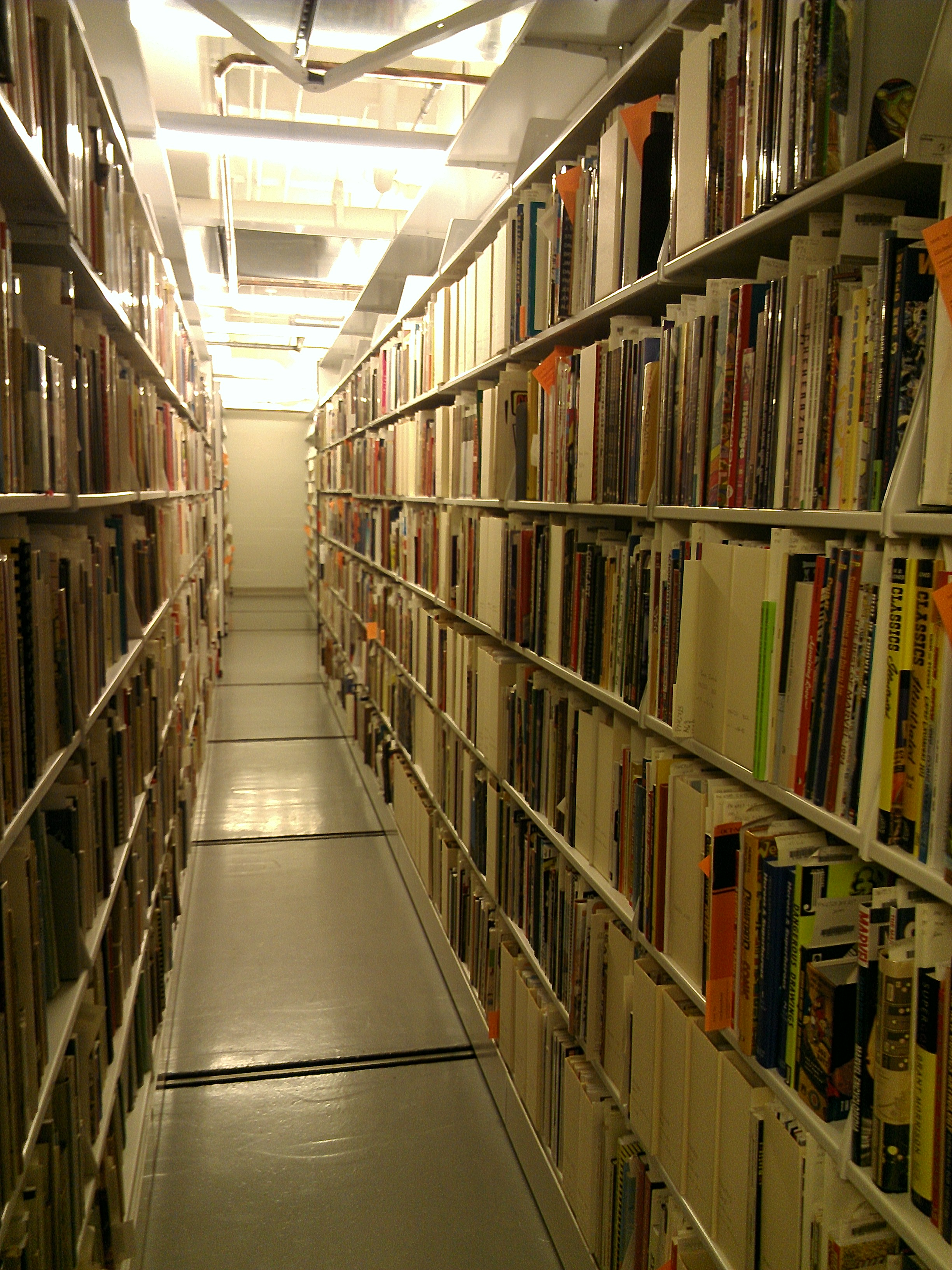 inside an aisle of compact shelving